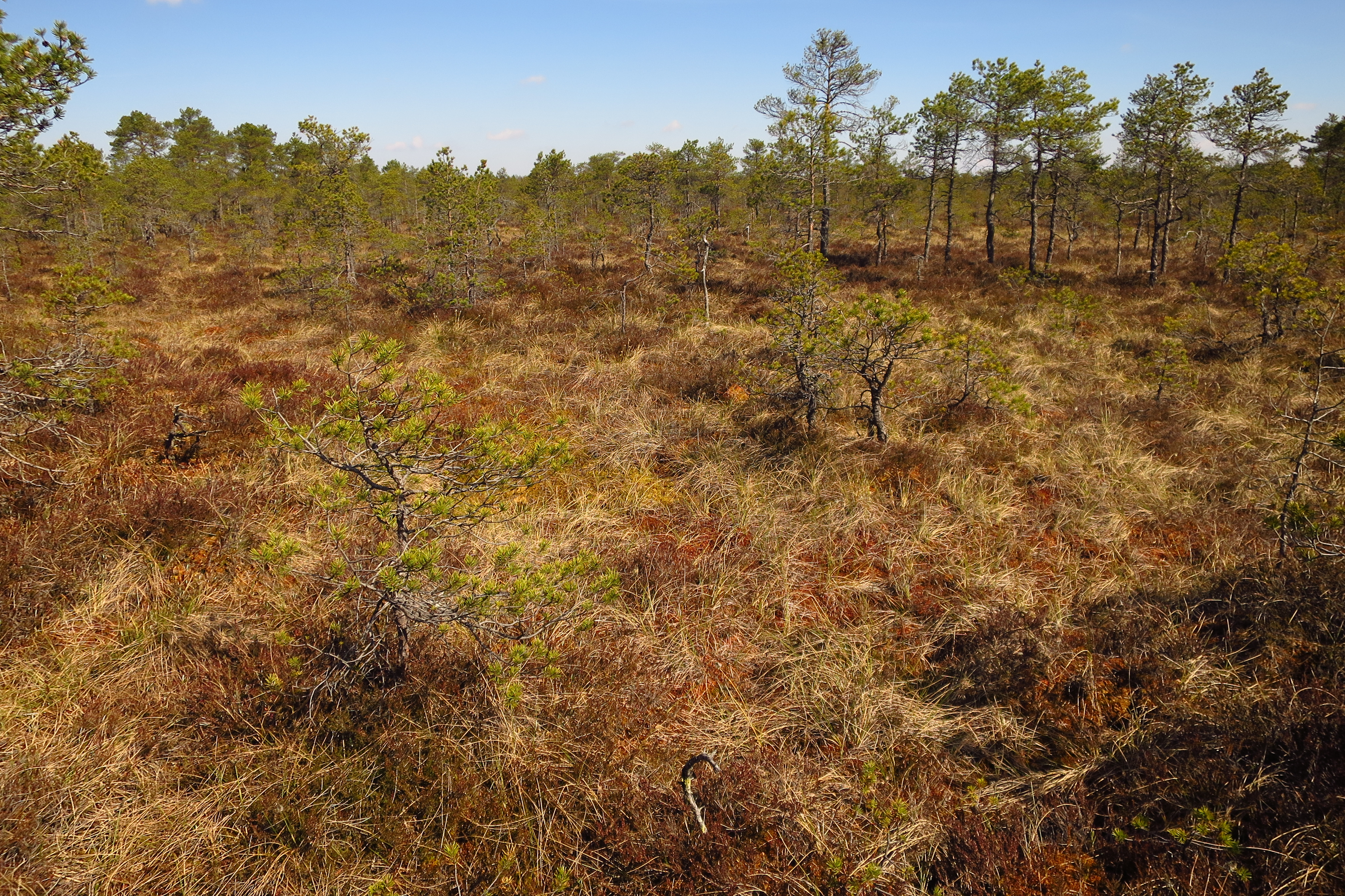 Savalduma soo